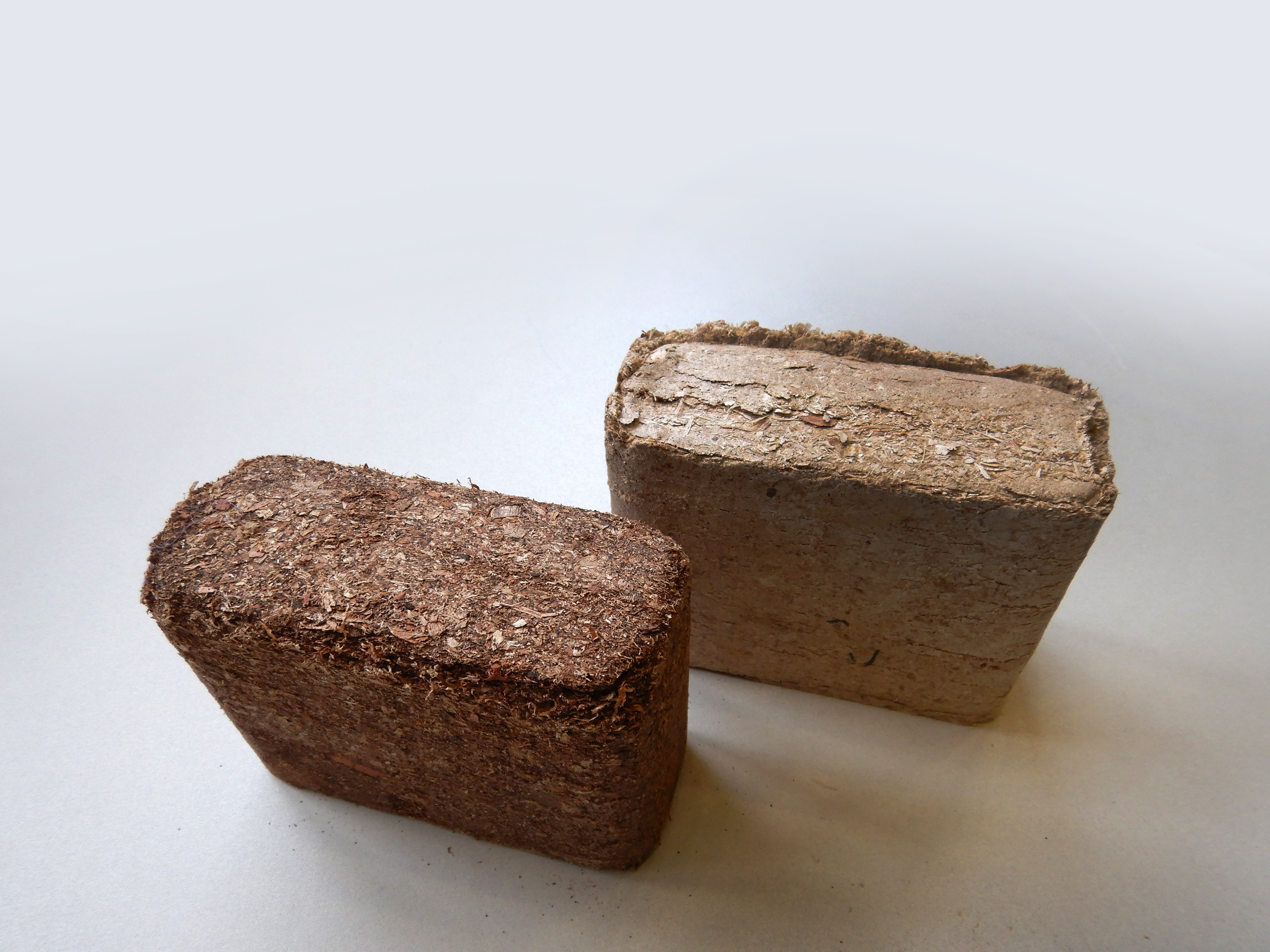 Heating sticks reconstituted with compressed sawdust and coffee grounds, without any additives or binders. In France two models are proposed, 20% or 80% of coffee grounds. The calorific value of this fuel is 5000 Kw / t. The ash content after combustion is 1.5%. The humidity level is less than 10%. These sticks are available in pack (bag of 8 sticks of 26x113x25 cm or pallets of 528 kg). Photograph made during a presentation of waste reduction solutions - during the 2018 European Waste Reduction Week - at the headquarters of the Hauts-de-France Regional Council (in November 2018).